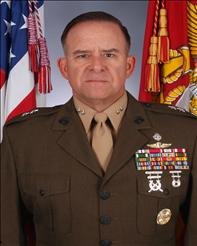 Official picture of Douglas M. Stone